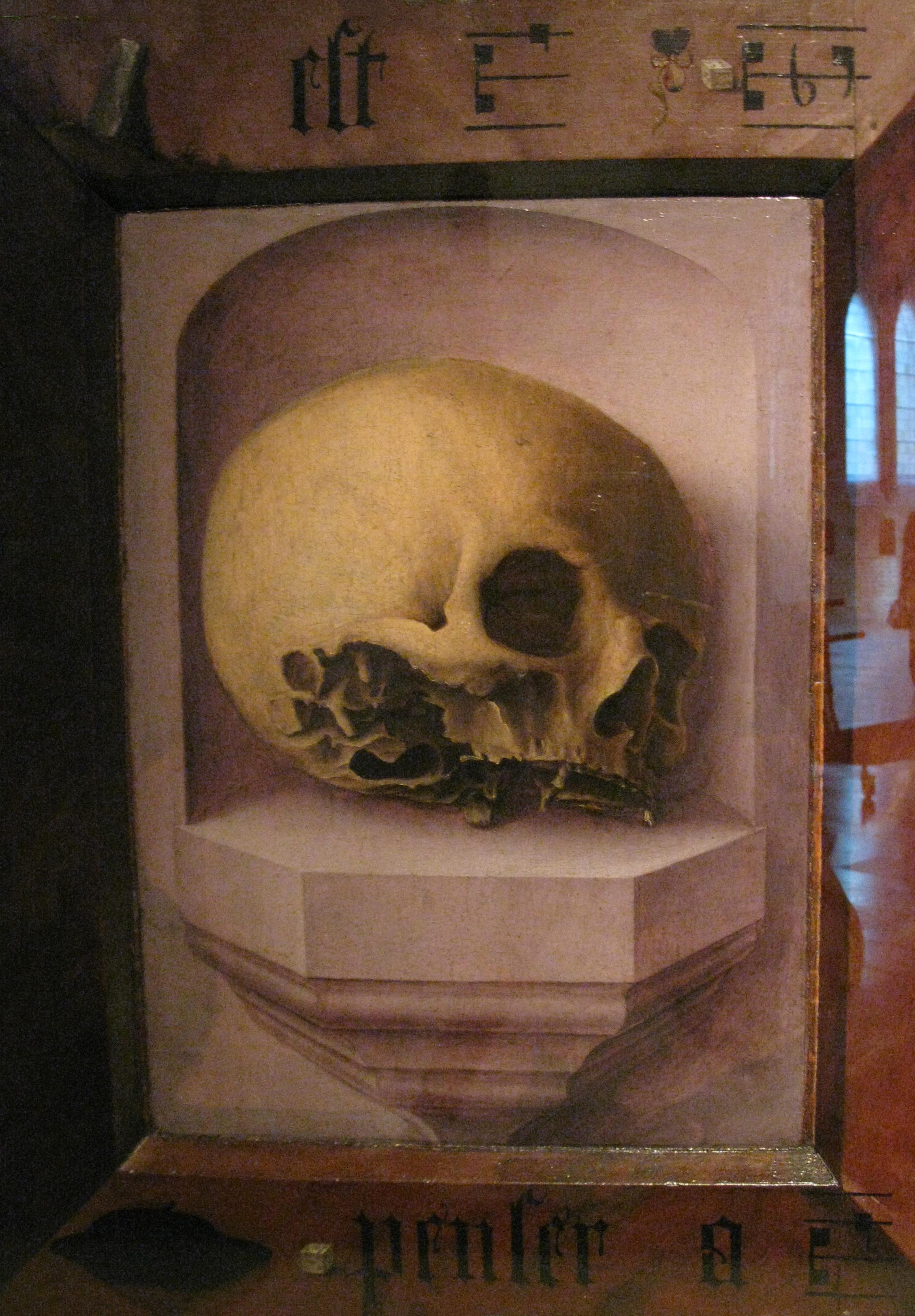 Self-made photo (St. Jan's Hospital Brugge)